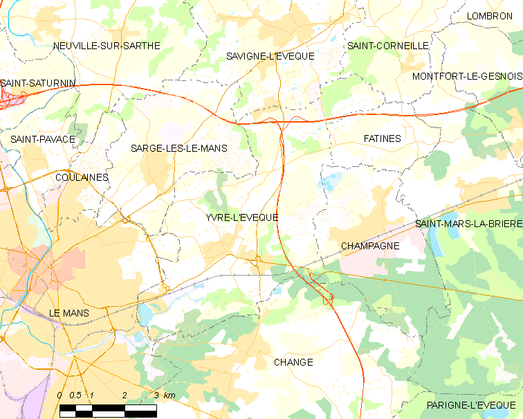 Map of French municipality